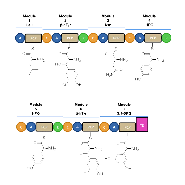 Modules and Domains of Vancomycin assembly. [Modules consist of an adenylation (A) domain, a peptidyl carrier protein (PCP) domain, a condensation (C) domain, a epimerization (E) domain, and a thioesterase (TE) domain]